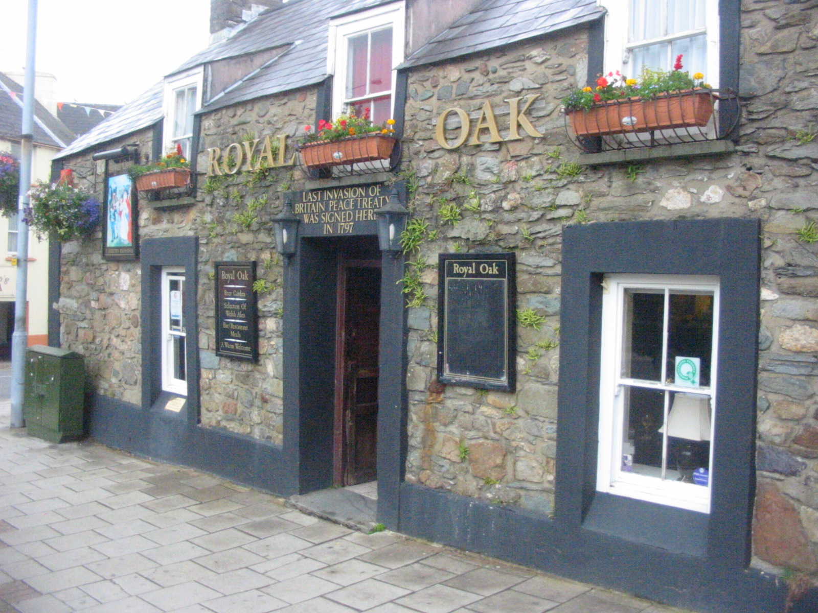 Royal Oak Pub, Fishguard, Wales, UK